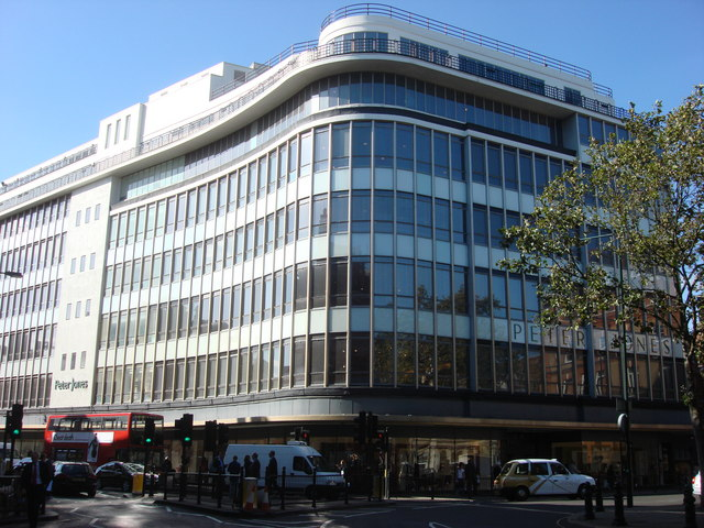 Peter Jones department store Peter Jones is one of the largest and best known department stores in central London, England. It is a store of the John Lewis Partnership and located on Sloane Square, at the junction of King's Road and Sloane Street, in the fashionable Chelsea district. Peter Jones was founded as an independent store but was taken over in the 1920s to form part of the John Lewis Partnership. The present building, which occupies the whole of an island site on the west side of Sloane Square, was built between 1932 and 1936 to designs by William Crabtree of the firm of Slater, Crabtree and Moberly. The building featured the first glass curtain walling in Britain and is now a Grade II* listed building.